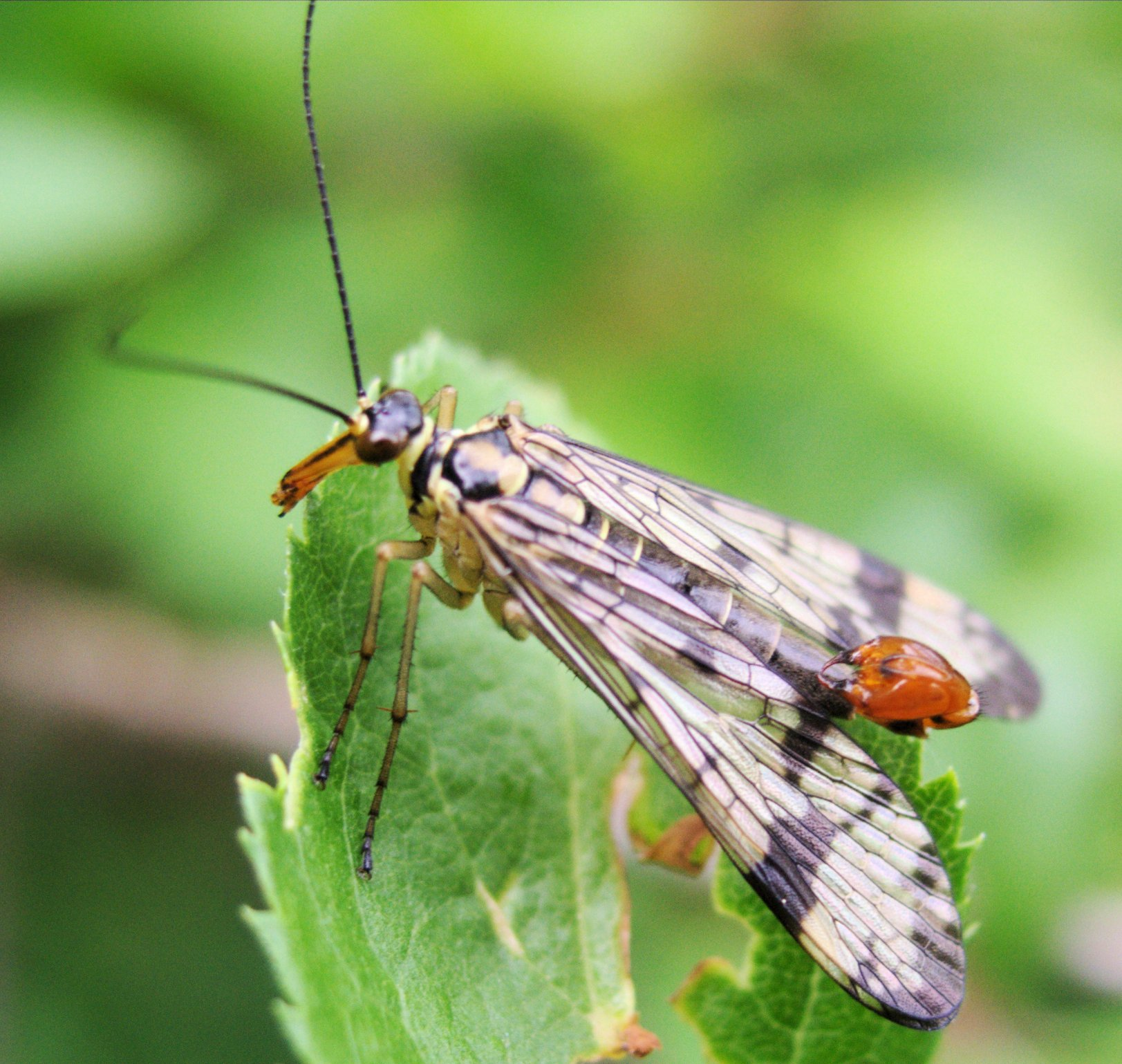 Name: Panorpa communis. Family: Panorpidae. Location. Münster, NRW, Germany